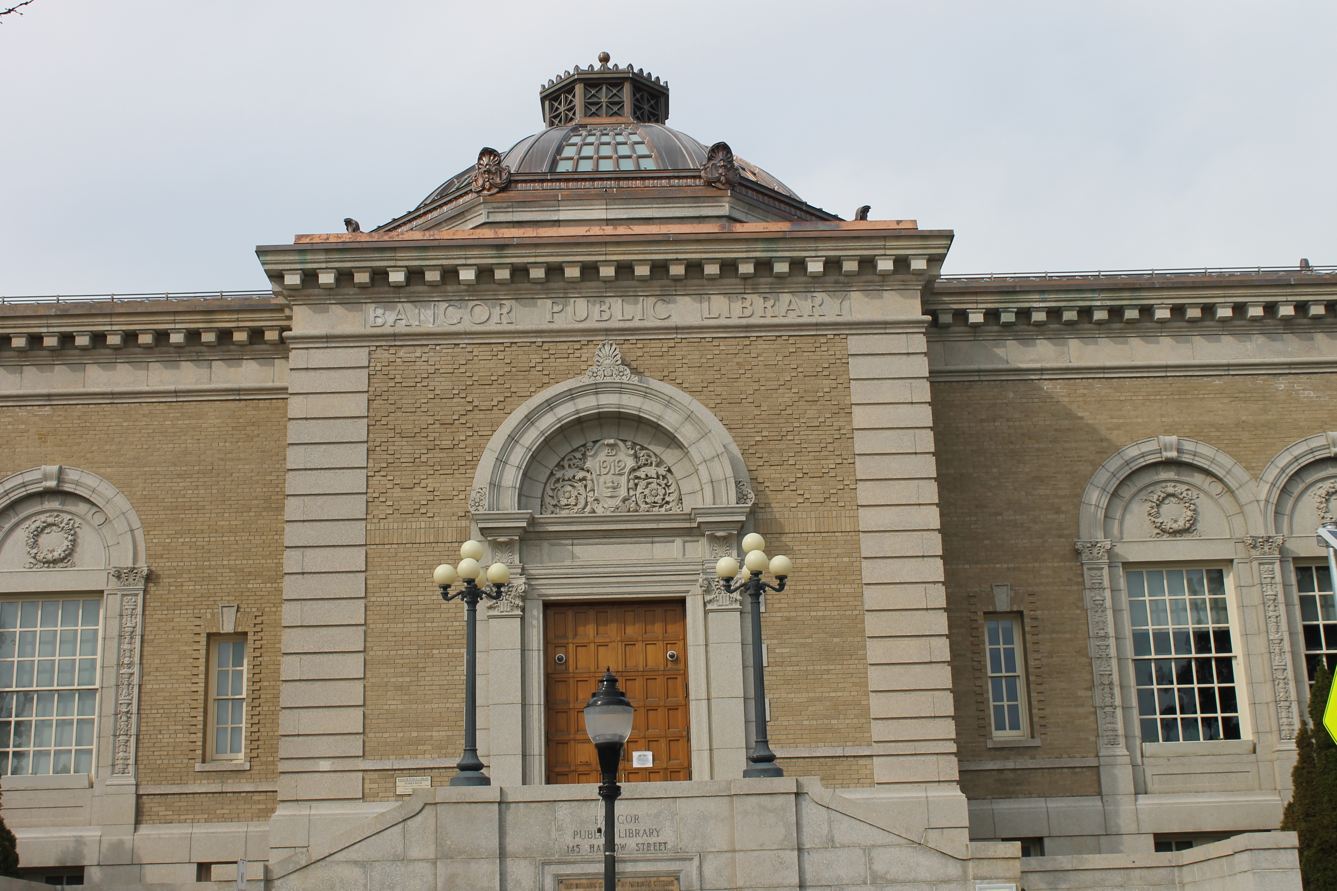 I took photo with Canon camera of Bangor, ME, Public Library.